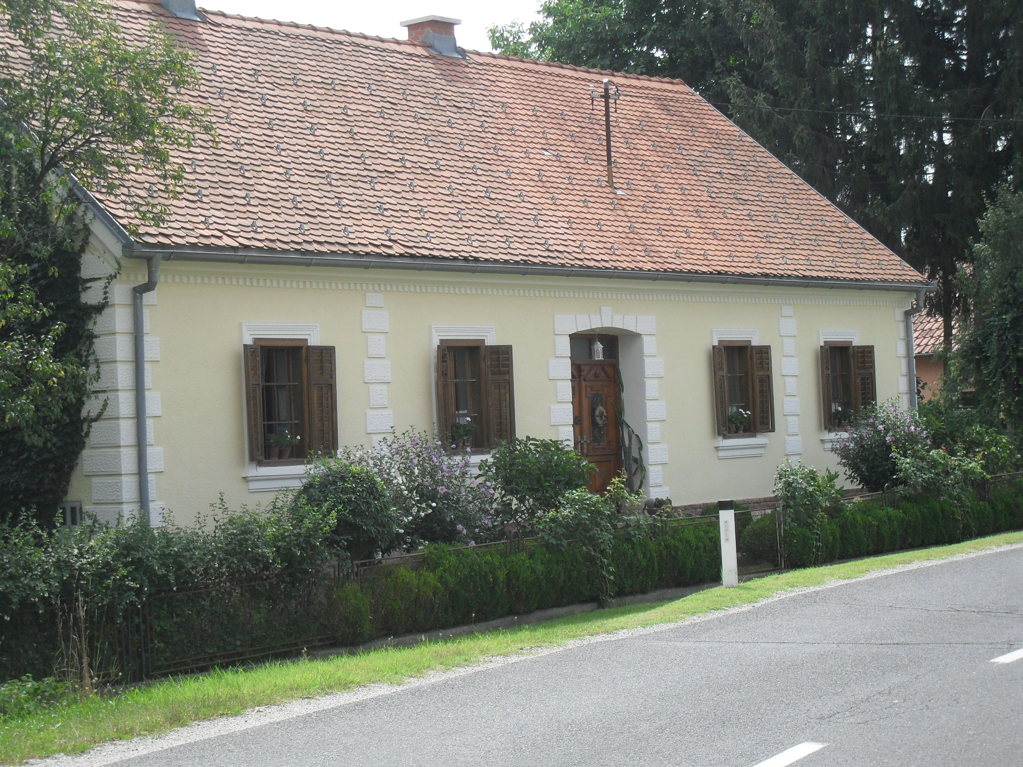 Country house in Sodišinci, Prekmurje, Slovenia